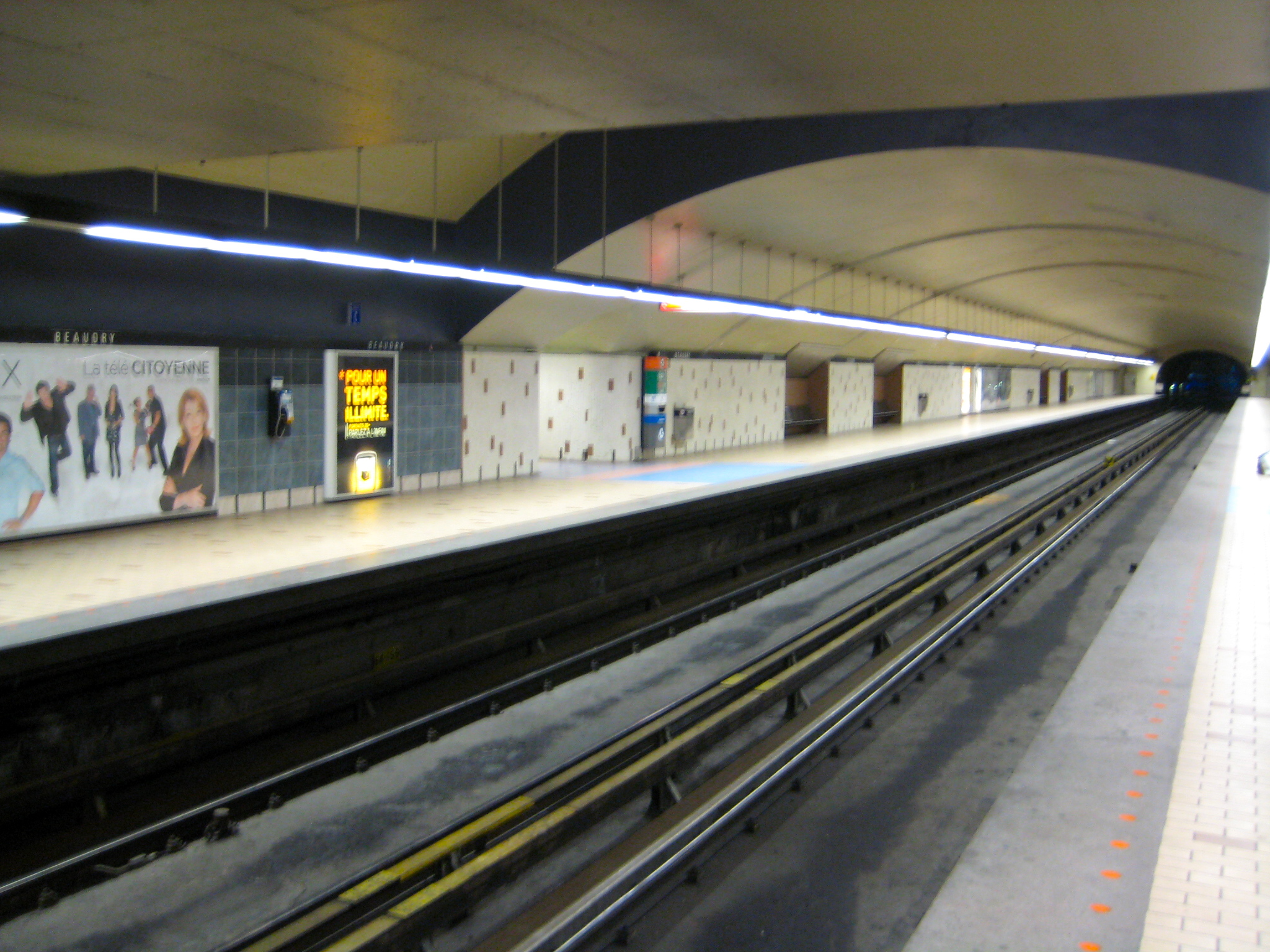 Beaudry station platform